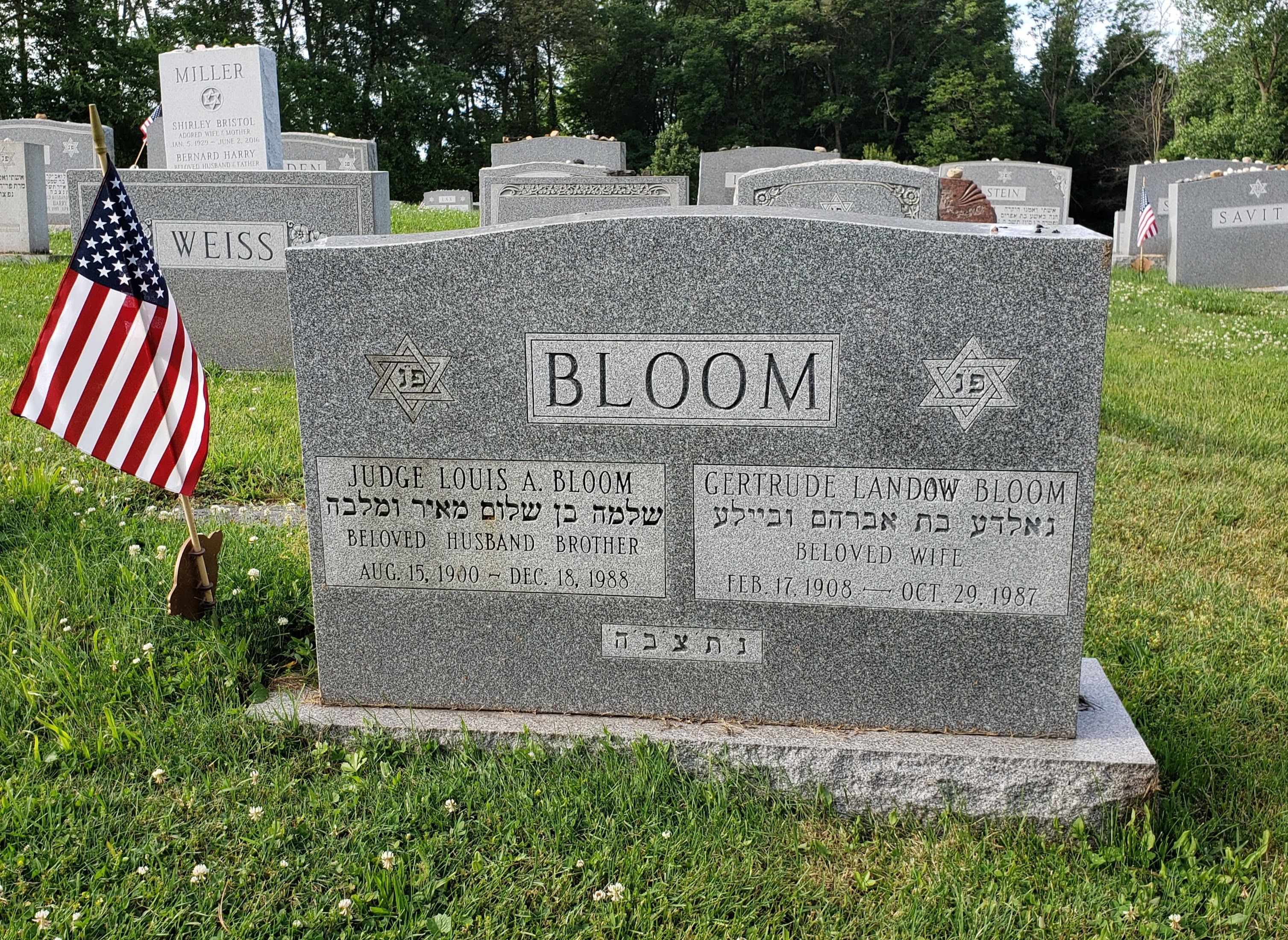 Photo of Louis A. Bloom gravestone at Ohev Shalom Cemetery in Brookhaven, Pennsylvania. Photo taken in June 2019.